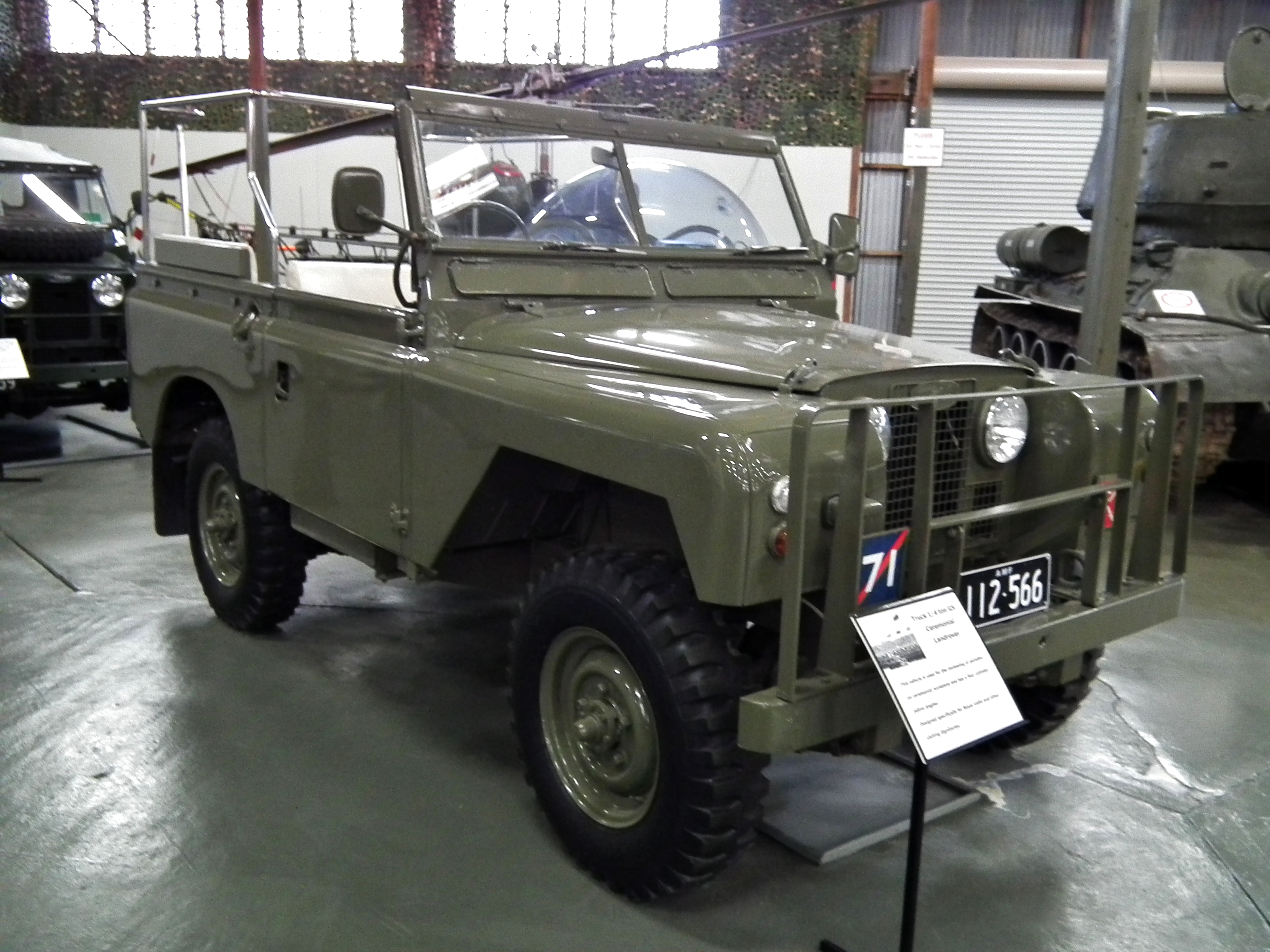 Land Rover SWB Ceremonial Vehicle. Taken at the Australian Army History Unit museum in Bandiana, Victoria.